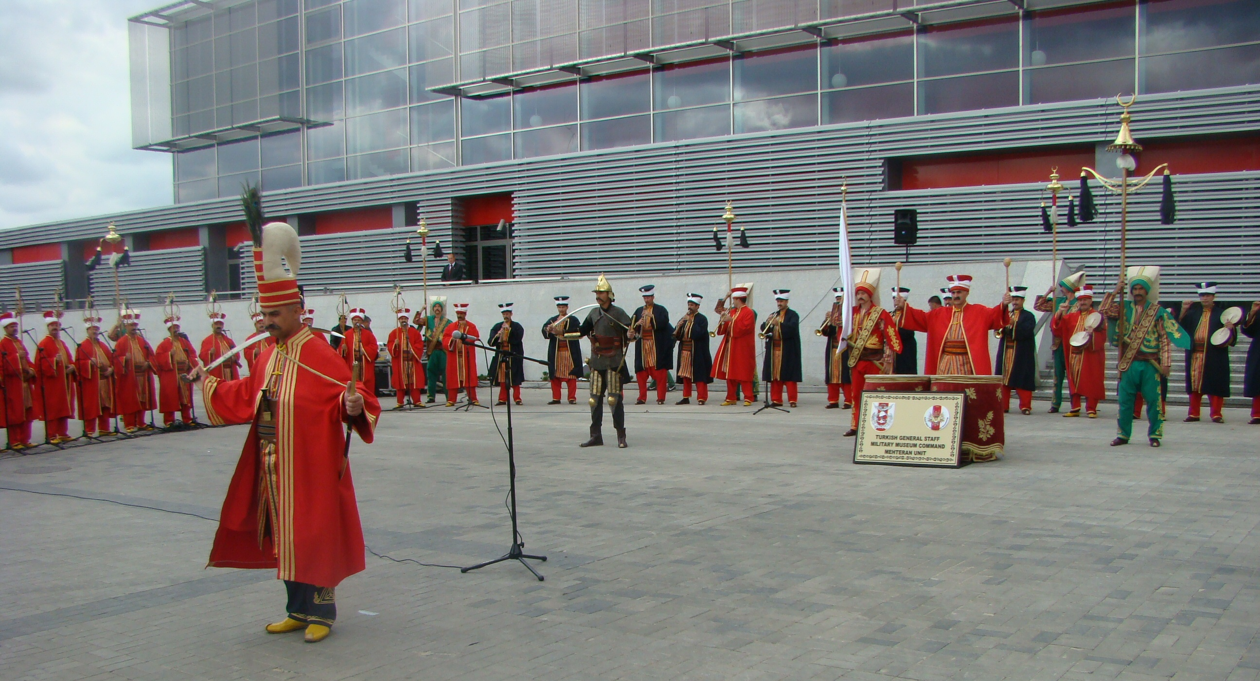 Mehteran military band. MSPO 2013.